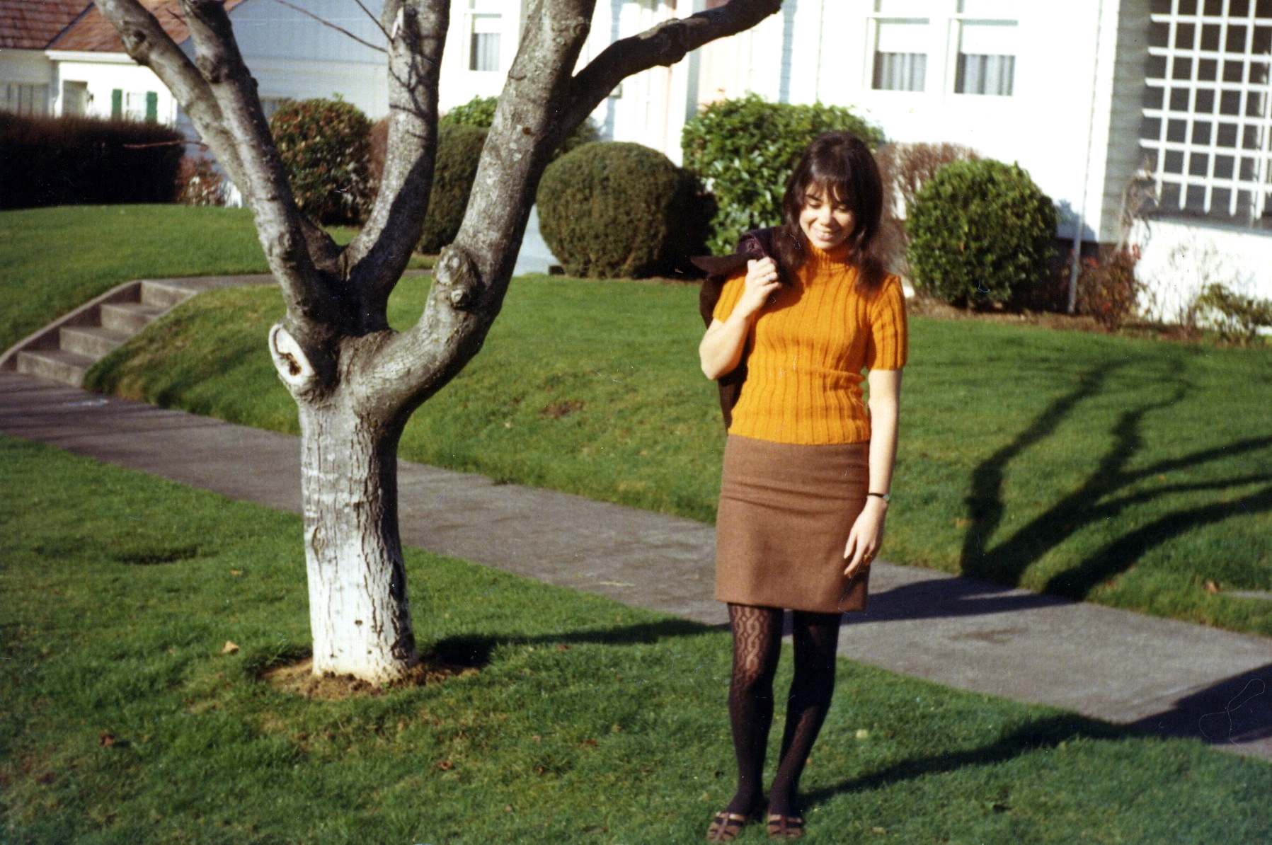 Young woman in fashion of the era standing by sidewalk. Taken In 1966 in Eugene, Oregon (USA)